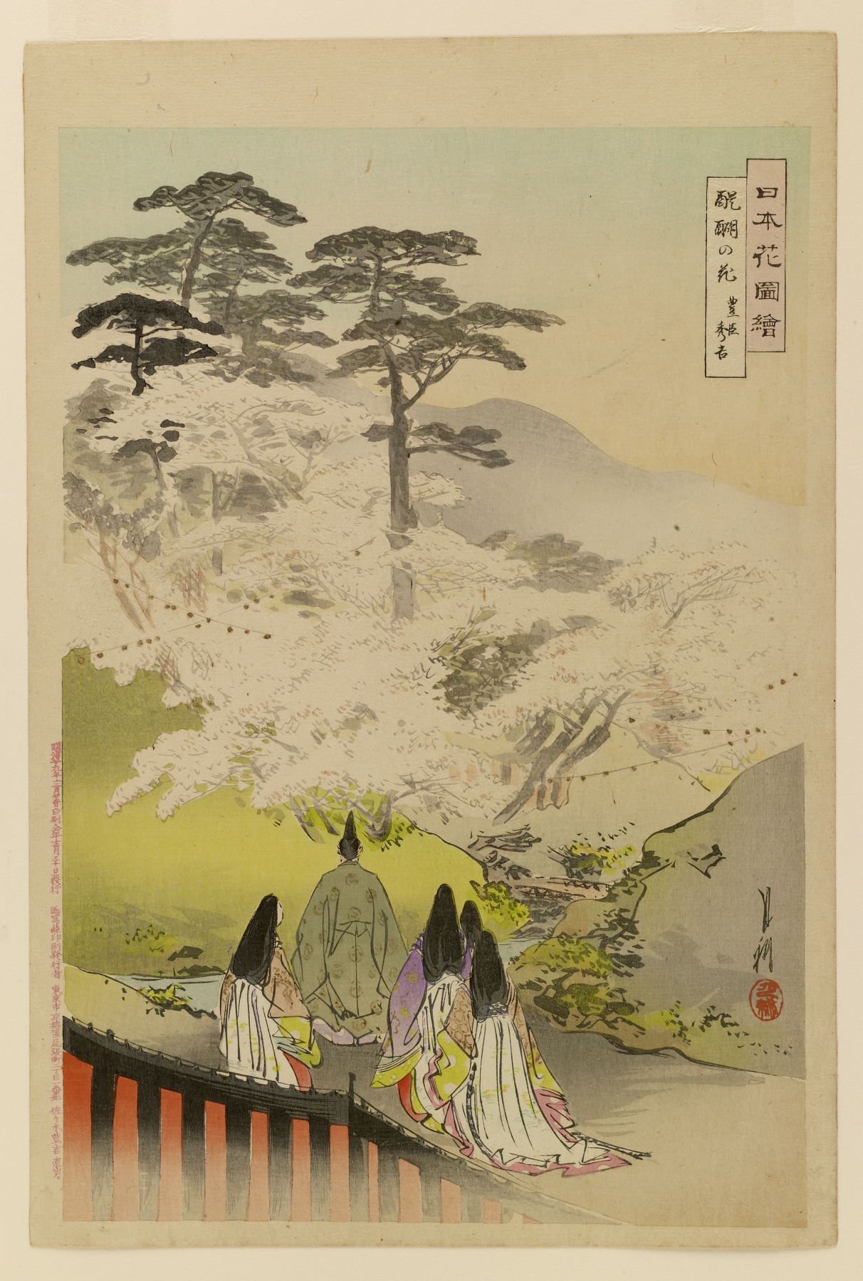 The general Toyotomi Hideyoshi was at his death in 1598 a virtual dictator of all Japan. He exemplified the warrior ethos: devotion to duty, awareness of death, and the heightened appreciation of beauty in the face of death.